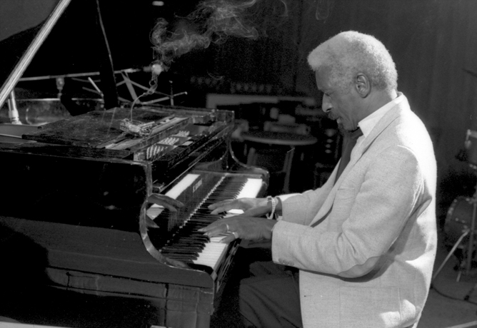 Mal Waldron performing at Bajones Jazz Club, San Francisco, 6/8/1987. photo by Brian McMillen /